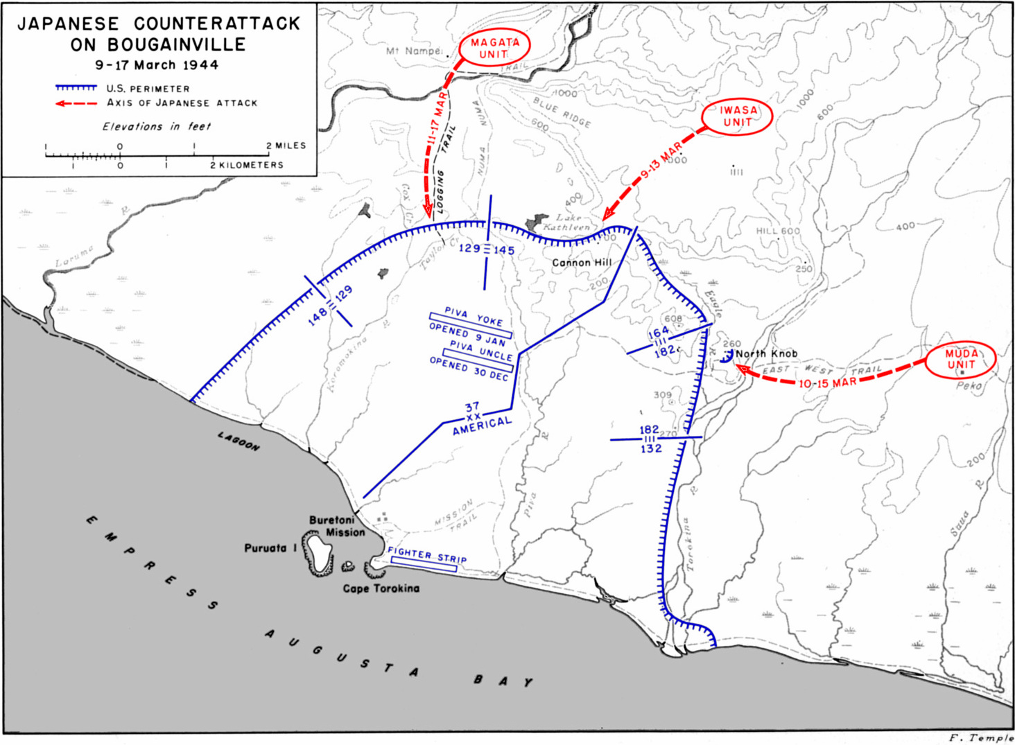 A map depicting the Japanese Counterattack on Bougainville during World War II which took place between 9 and 17 March 1944 sourced from the US Army's official history of the campaign CARTWHEEL: The Reduction of Rabaul by John Miller, Jr.